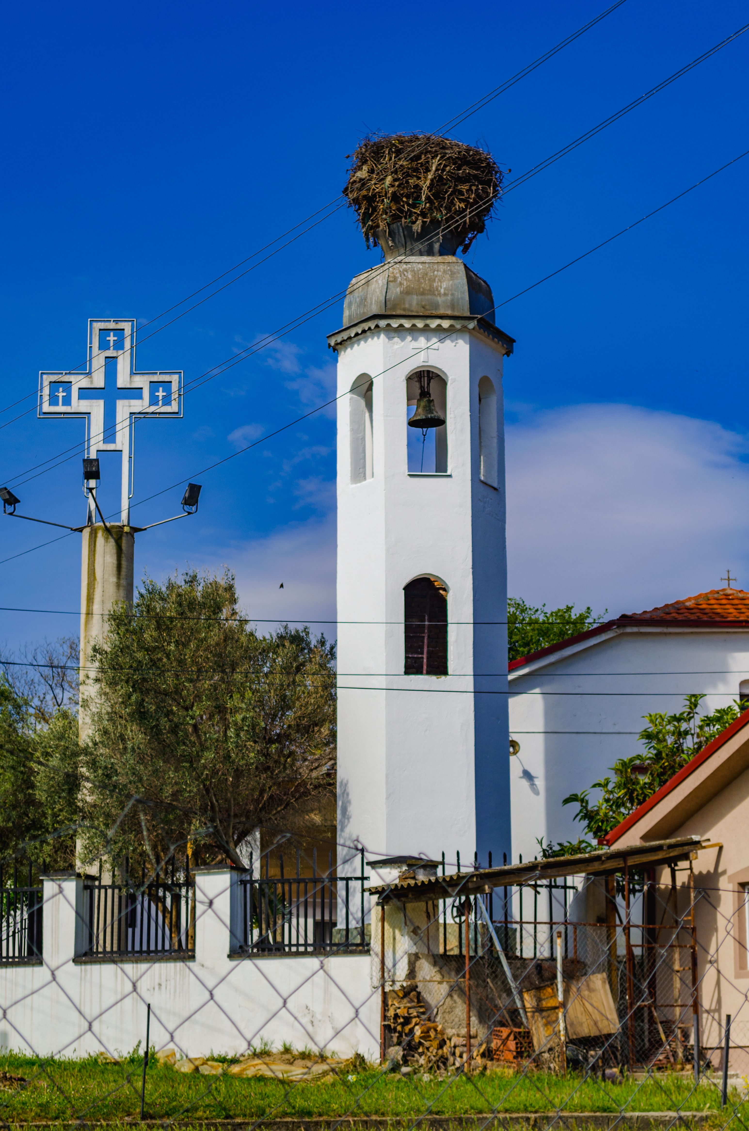 The bell tower of Nativity of the Theotokos Church in the village of Bogorodica, Macedonia